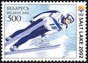 Belarus stamp no. 451, commemorating the 2002 Winter Olympics.